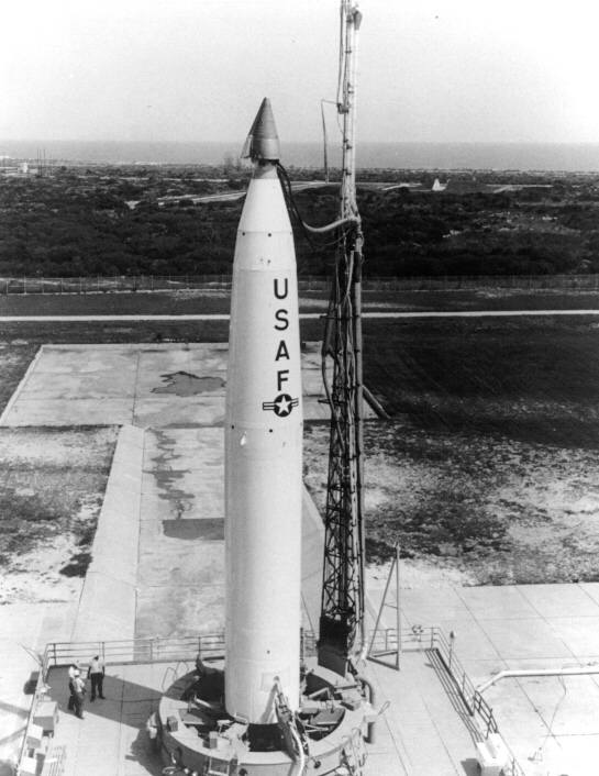 Photograph of ASSET / Thor combination on the pad prior to launch. USAF photograph taken on August 28, 1963 [1] From online copy of government-published book "The 6555th: Missile and Space Launches Through 1970" [2] by Mark C. Cleary, Chief Historian 45 Space Wing Office of History 1201 Minuteman Ave, Patrick AFB, FL 32925